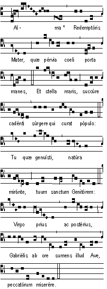 Alma Redemptoris Mater in cantus planus & gregorian notation